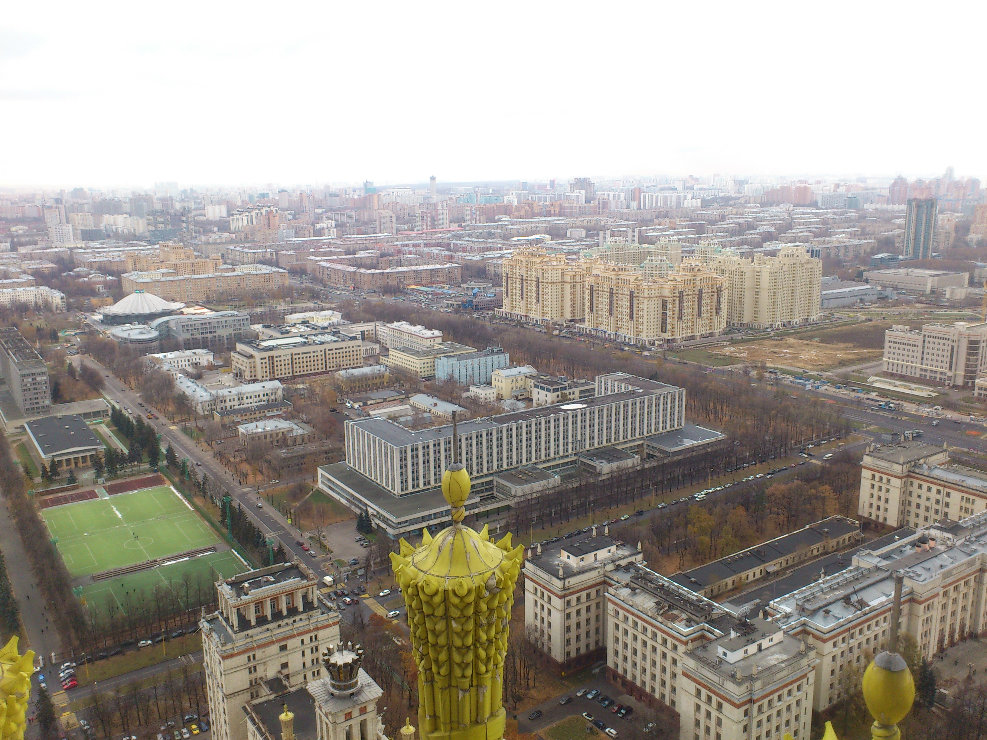 Ramenki District, Moscow, Russia